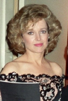 Photo taken at the 41st Emmy Awards 9/17/89 - Permission granted to copy, publish or post but please credit "photo by Alan Light" if you can